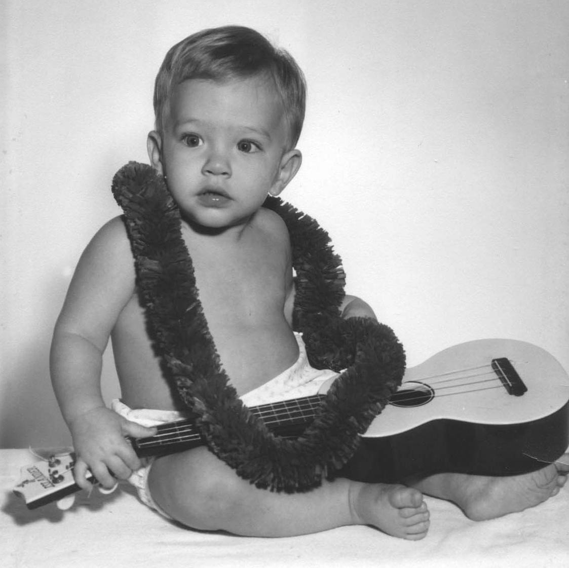 Boy wearing Hawaiian lei and holding ukulele